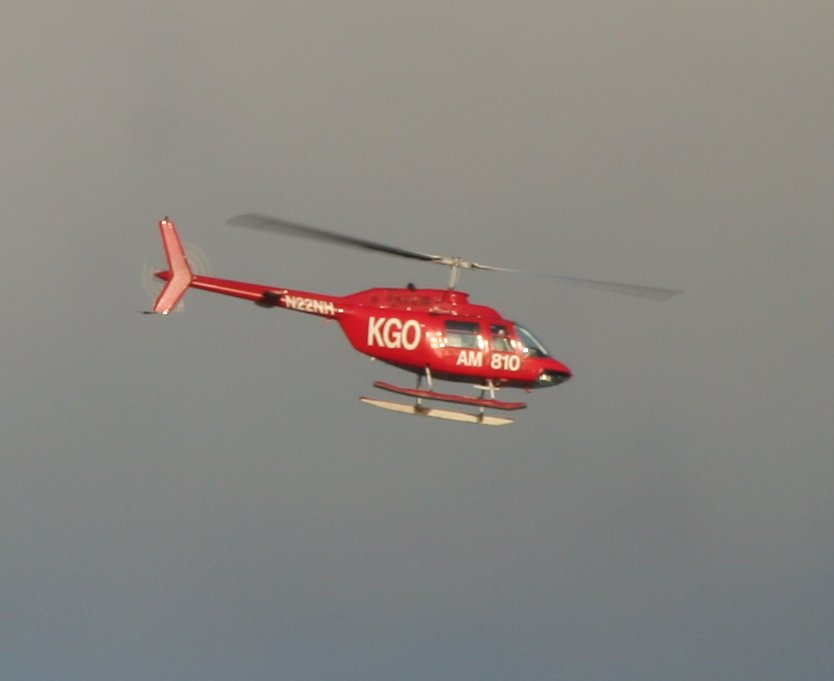 Photographed by and copyright of (c) David Corby (User:Miskatonic, uploader) 2006